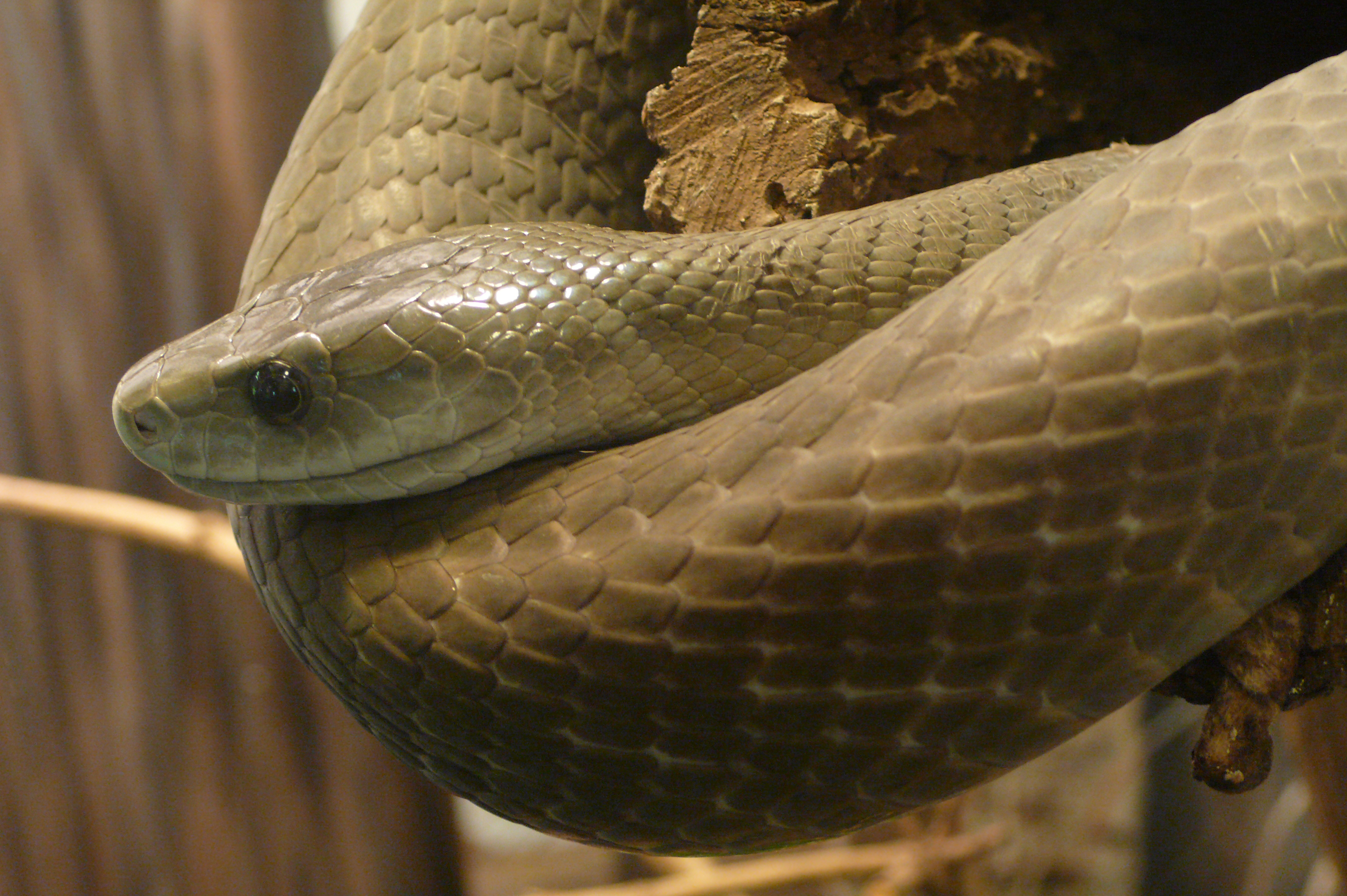 Black mamba (Dendroaspis polylepis)